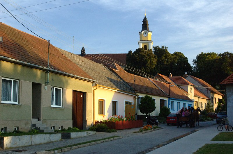 Mutěnice, Czech republic